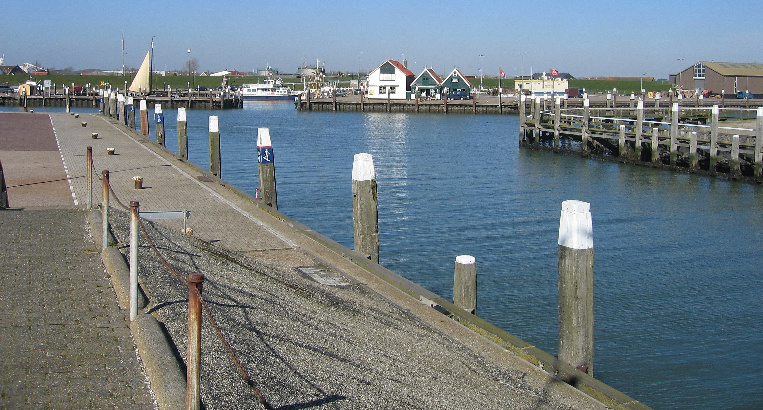 Harbour of Oudeschild, Texel, Netherlands.